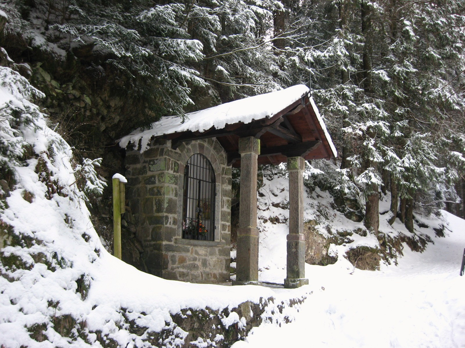 Saint Carl, Sedornia valley, Bergamo (Italy)